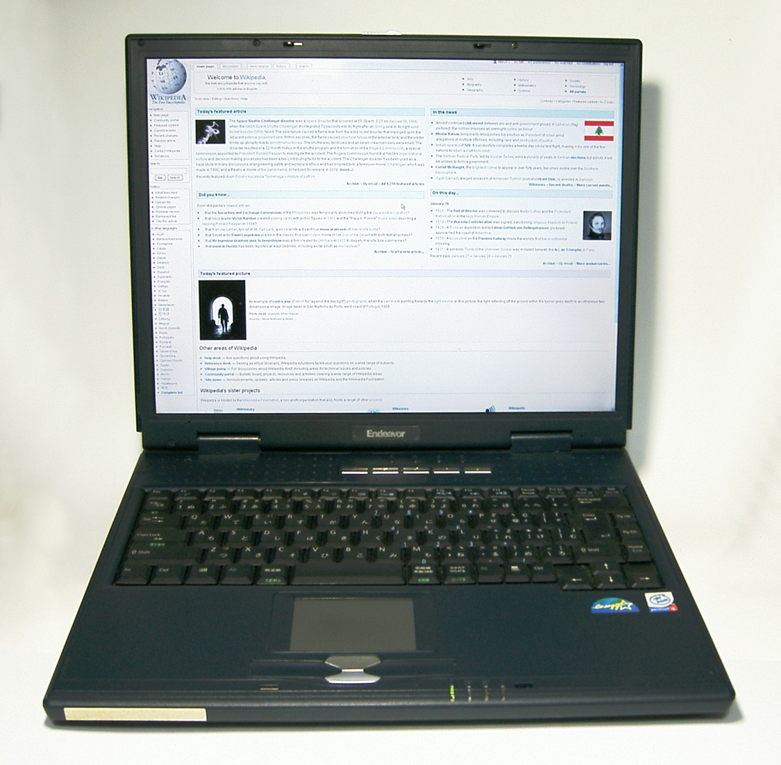 Personal Computer EPSON_Endeavor_NT-5000 Japan